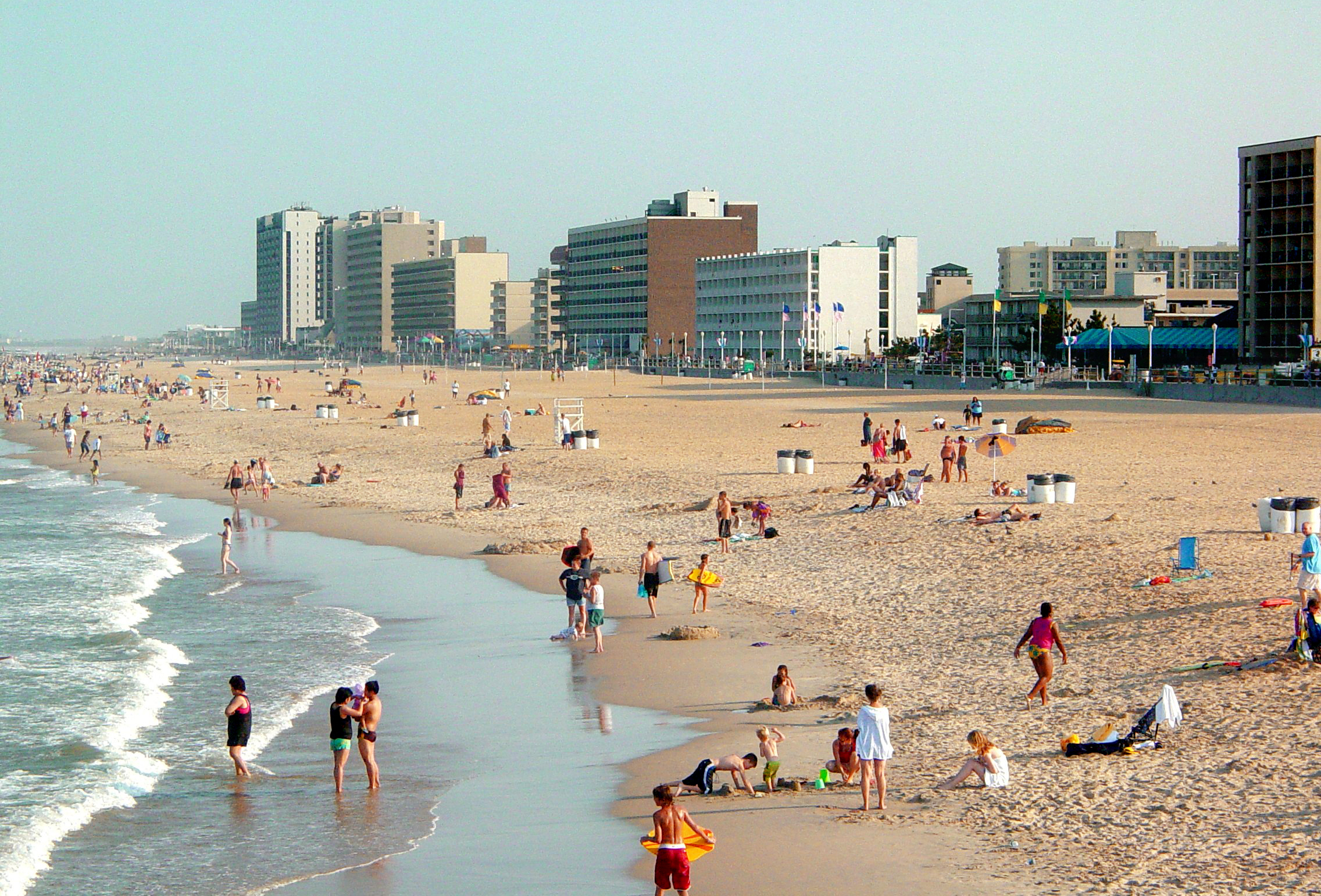 One of the best places to travel, The Virginia Beach oceanfront, boardwalk, and hotels as seen from the Fishing Pier.